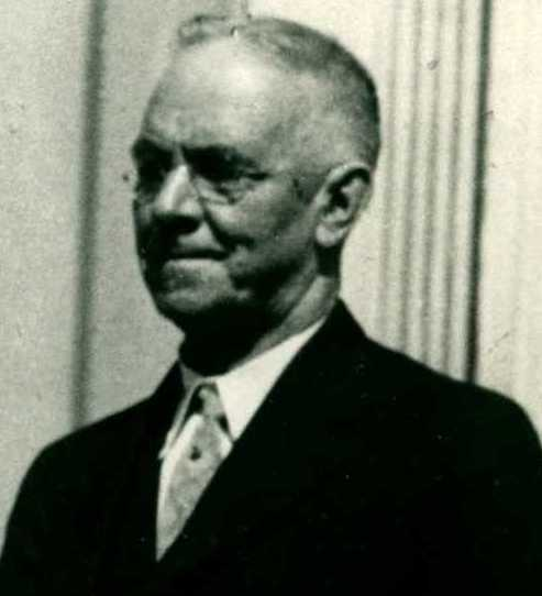 Nathaniel L. Britton, Thomas Edison and Marshall Avery Howe at the New York Botanical Gardens; July 1927